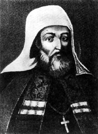 Gedeon Światopełk-Czetwertyński, metropolitan of Kiev (1685-1690), first consecrated in Patriarchat of Moscow